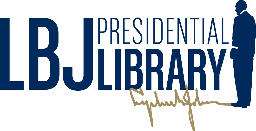 Official logo of the LBJ Presidential Library.